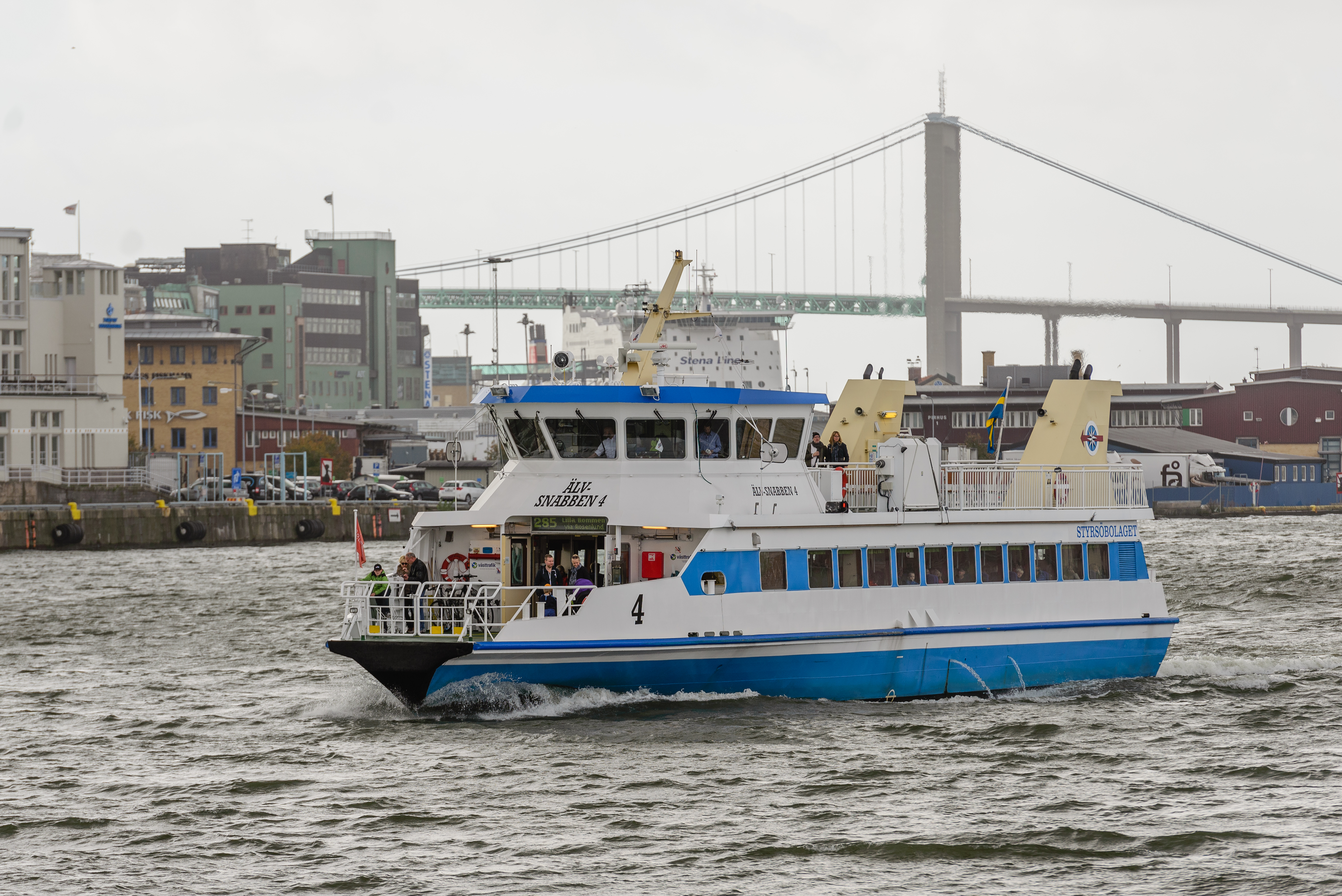 The ferry Älv-snabben 4 in Gothenburg habour. In the background, the Älvsborg bridge.